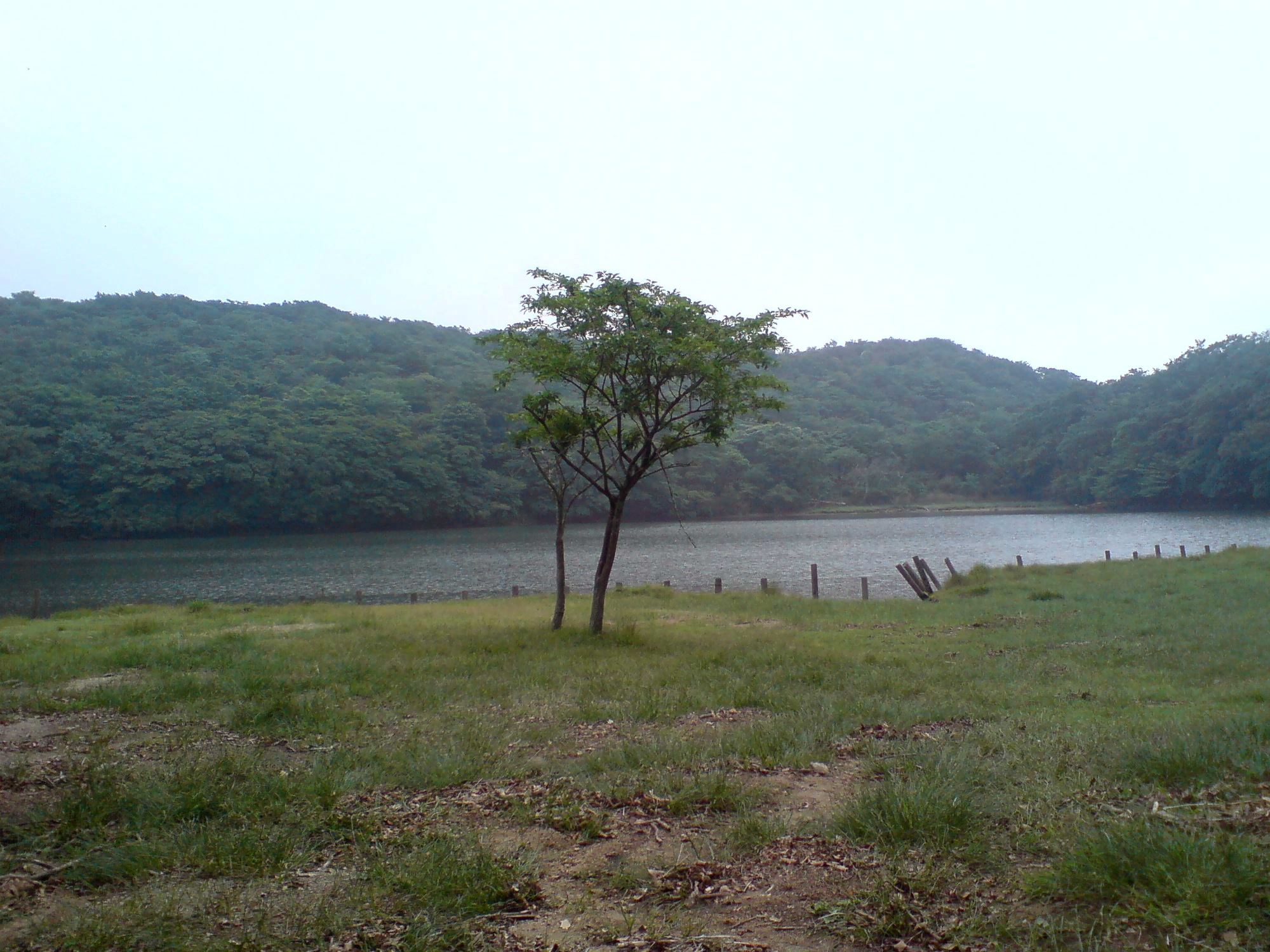 Hatcho Pond (Hatcho-ike)in Mount Amagi, Shizuoka Prefecture, Japan.